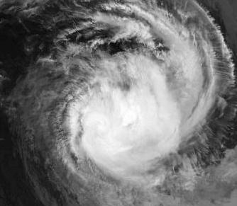 Tropical Cyclone Hina